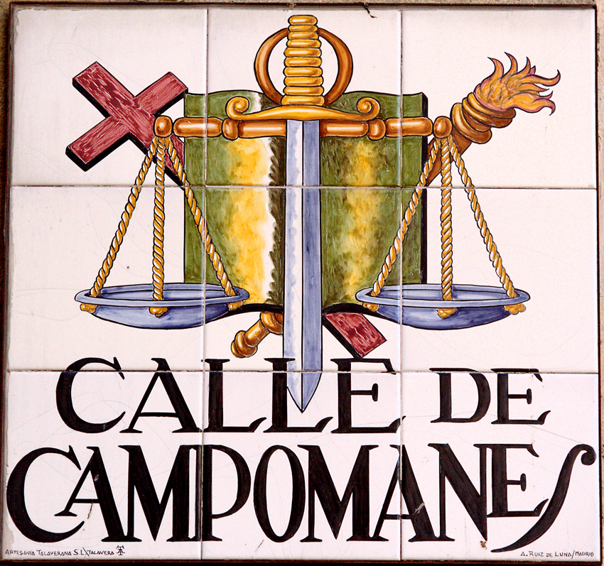 Sign of Calle de Campomanes (street, Centro district) in Madrid (Spain).